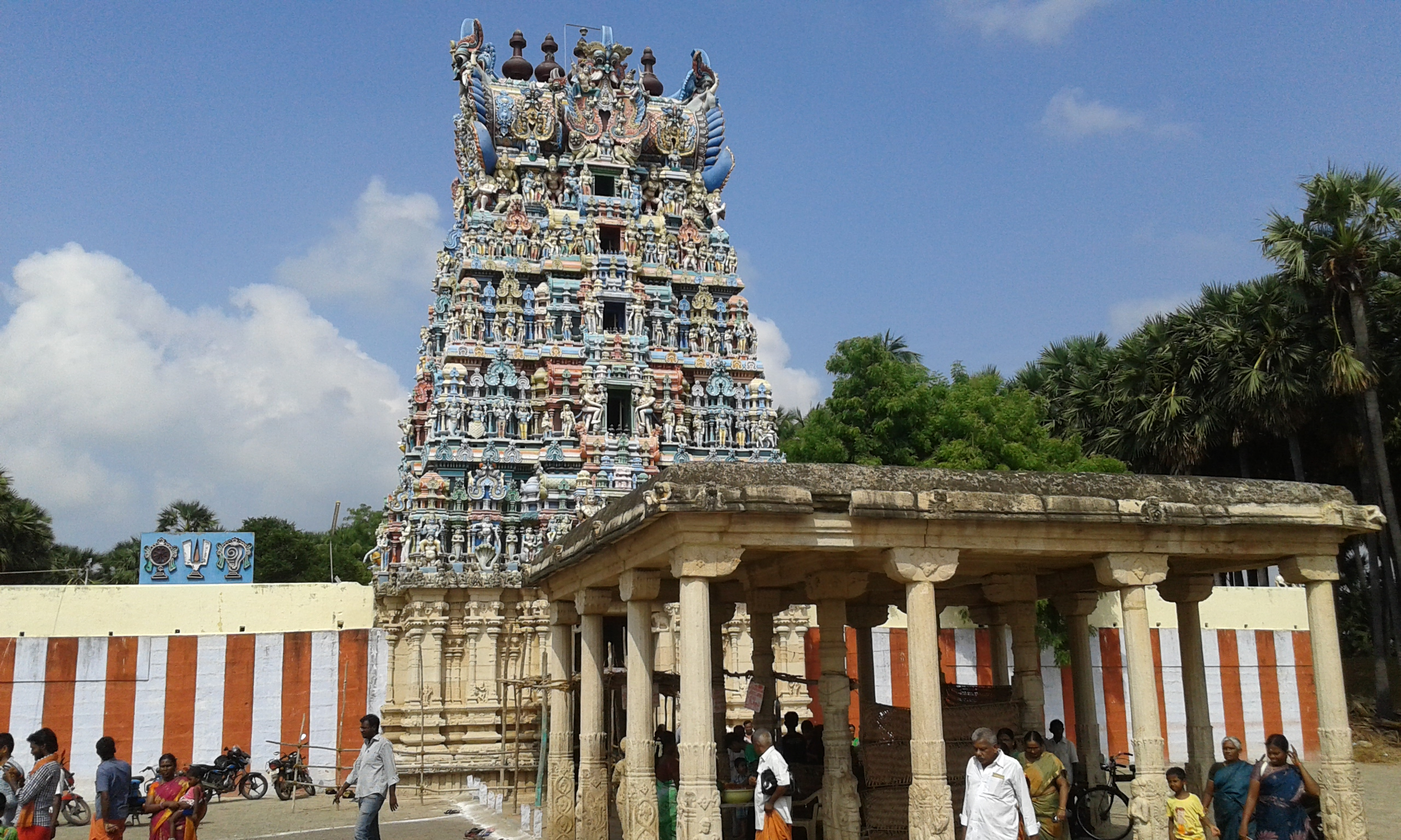 Varagunamangai temple